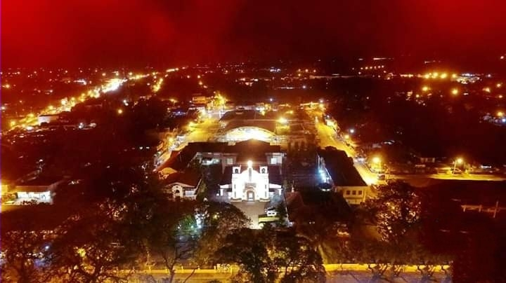 Aerial view at night in Kabankalan City, Negros Occidental, Phippines showing the cathedral